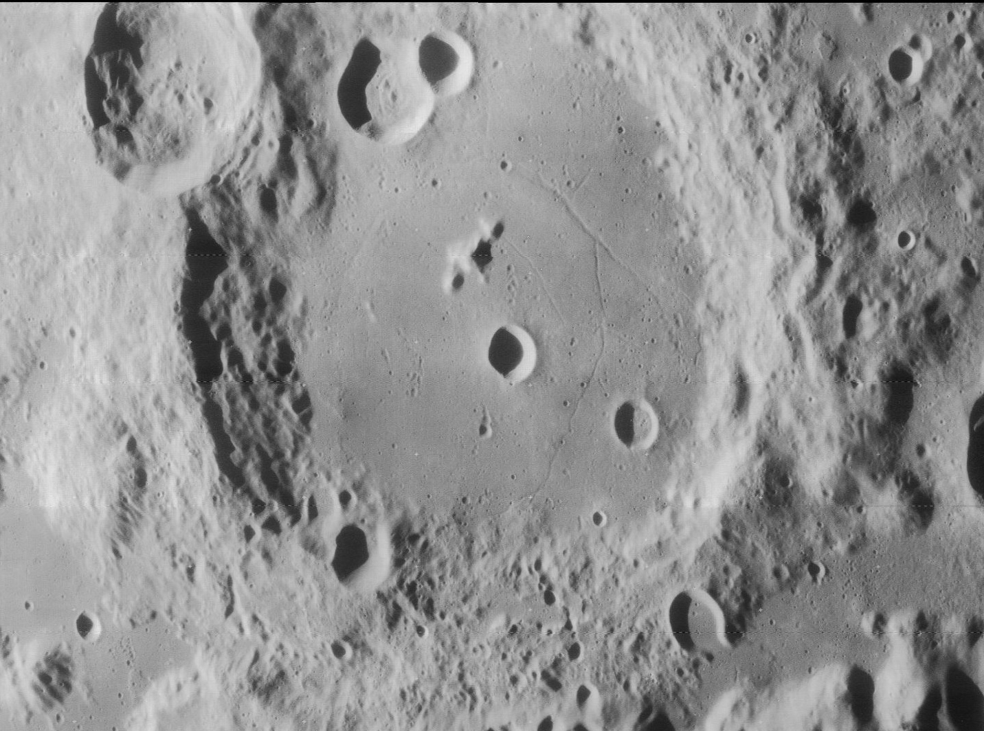 Oblique view of most of Cleomedes, on the moon, facing west with north at top.